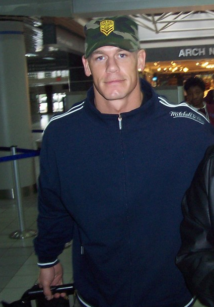 A snapshot of John Cena at the airport